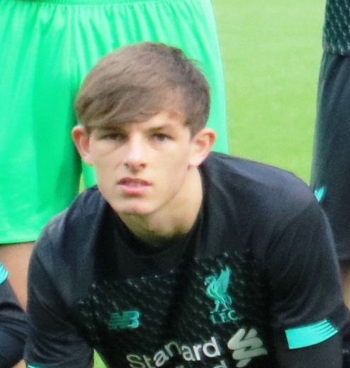 Leighton Clarkson before the game against Red Bull Salzburg U19